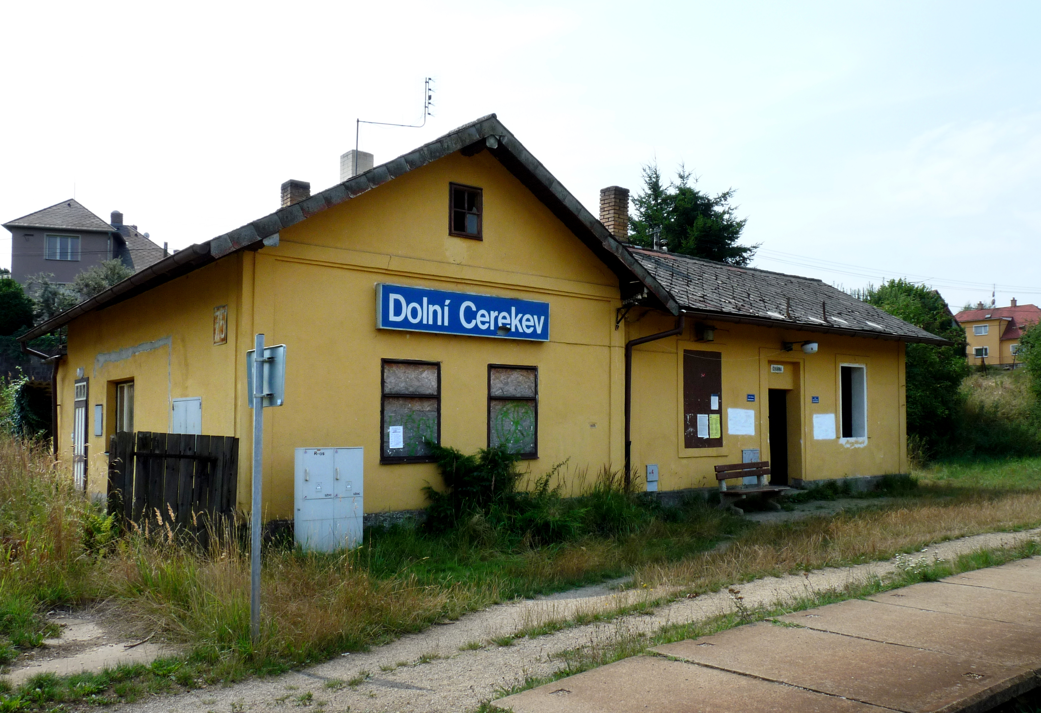 Building No 44 in the village of Nový Svět, Jihlava District, Vysočina Region, Czech Republic - train station.